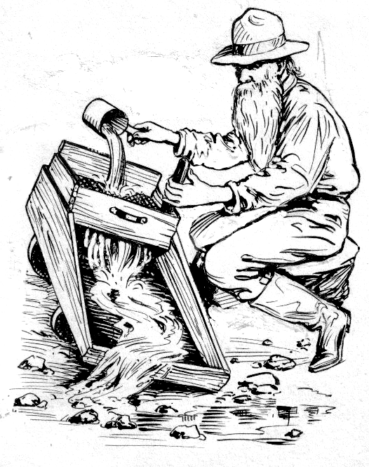 b/w line drawing of a cradle